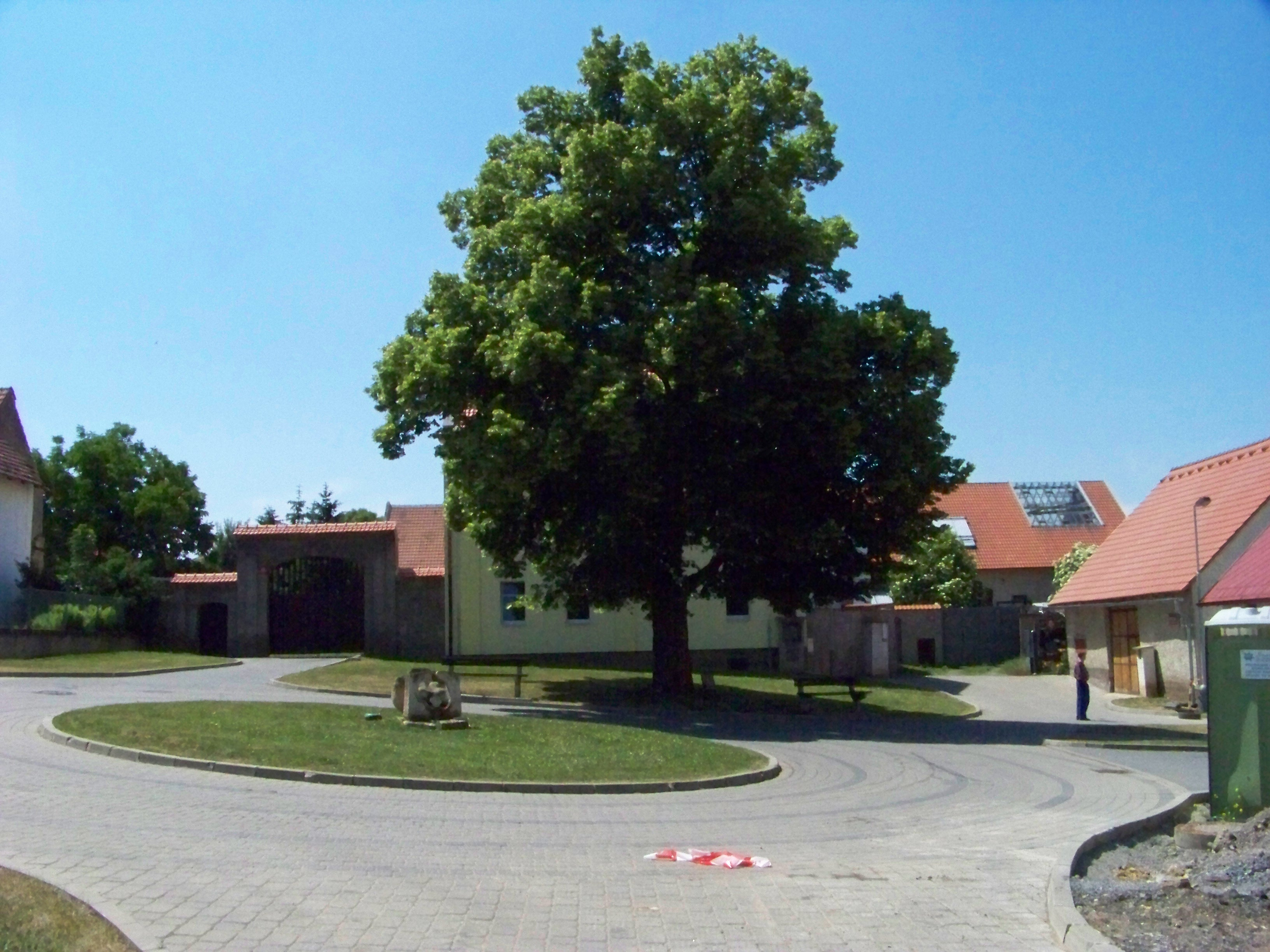 Prague-Přední Kopanina, the Czech Republic. Hokeš Square, a memorably tree and a house No. 28